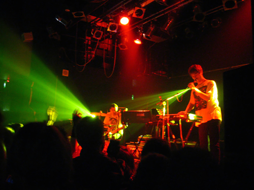 [The Presets - ULU - 18/10/2006]